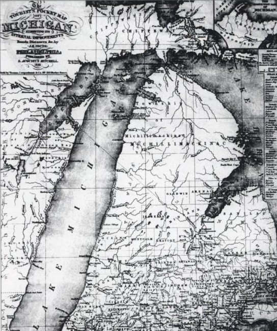 1839 Michigan map.